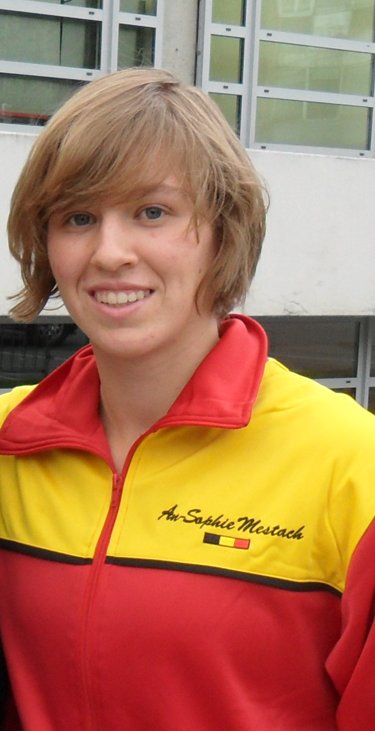 An-Sophie Mestach at the 2011 Fed Cup Semifinals against Czech Republic in Charleroi, Belgium on April 16, 2011.